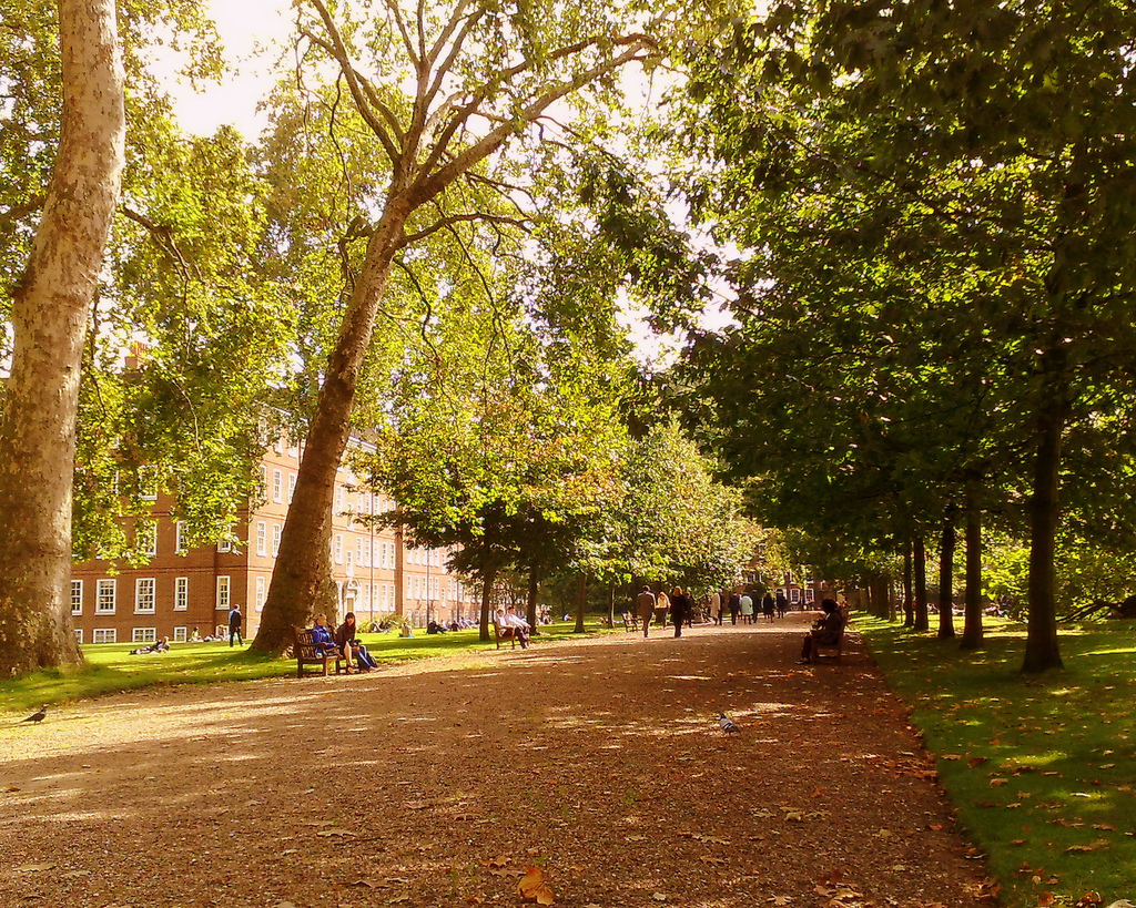 A September lunchtime in Gray's Inn Gardens, London, looking south from Theobalds Road, Holborn.